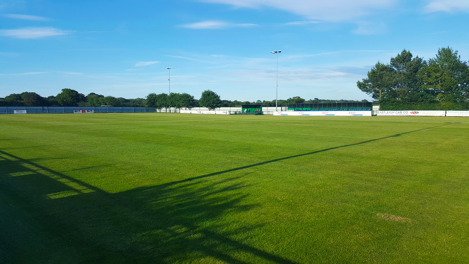 Silverlake Arena, home of Sholing Football Club